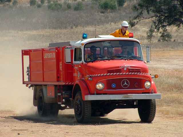 Ladysmith NSW RFS fire fighting tanker heading to a bushfire at Tatton on Willans Hill in Wagga Wagga, New South Wales.